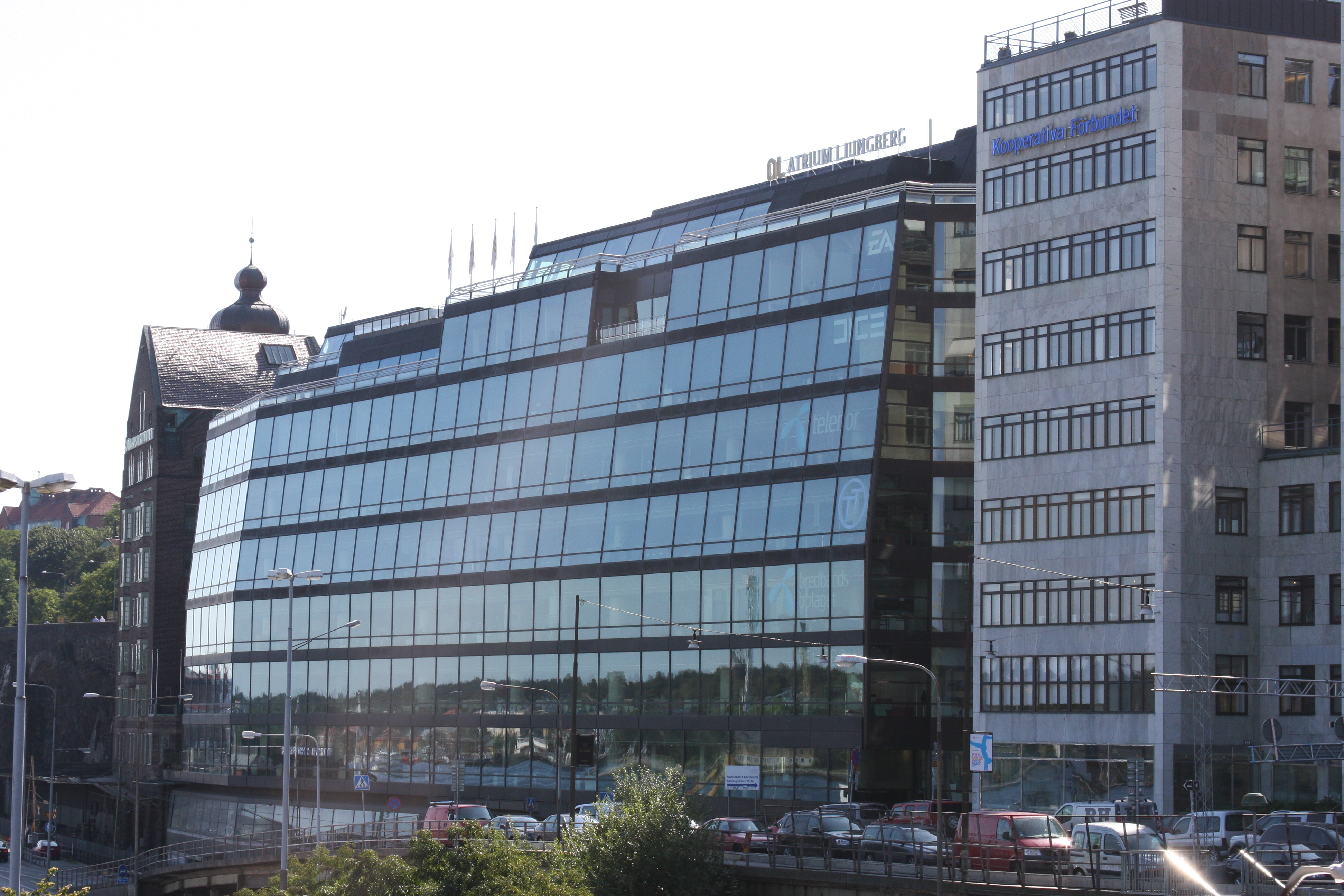 Telenor Sweden headquarters at Katarinavägen, Slussen, Stockholm